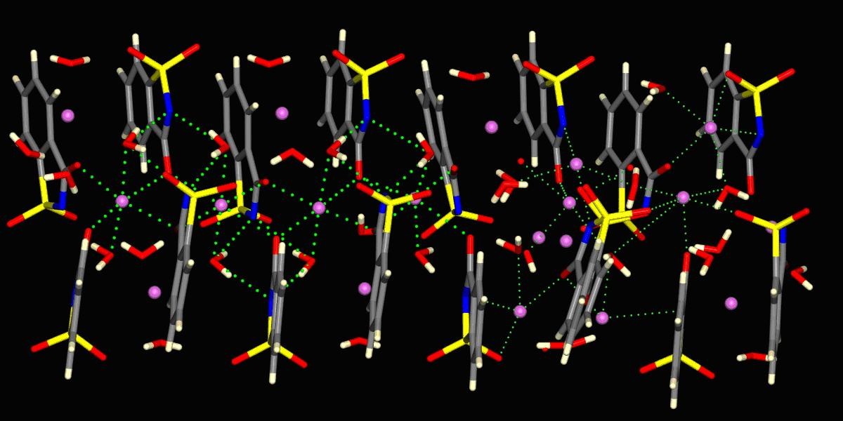 Saccharin crystal structure